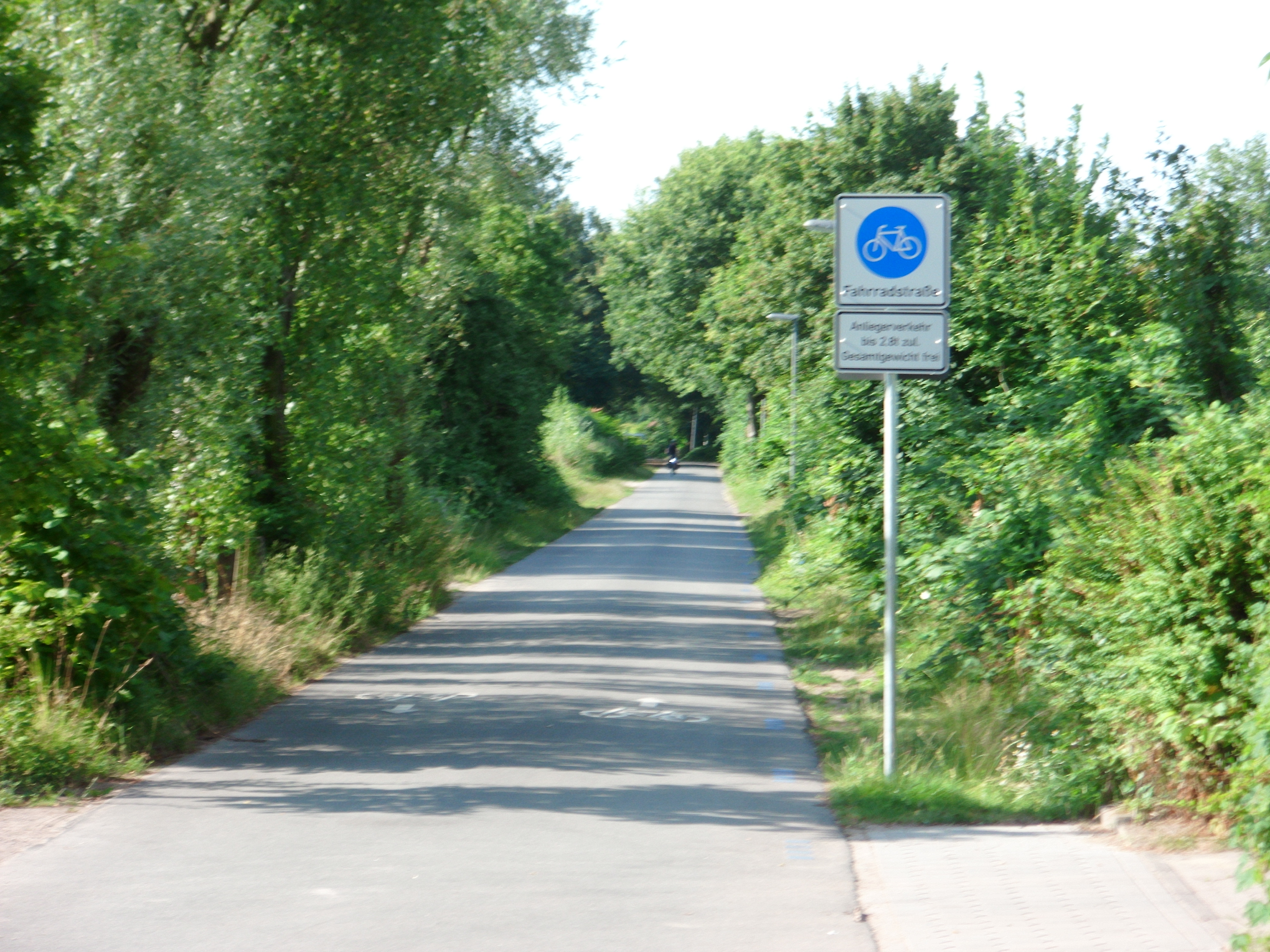 Bicycle Road in Hamburg-Wilhelmsburg